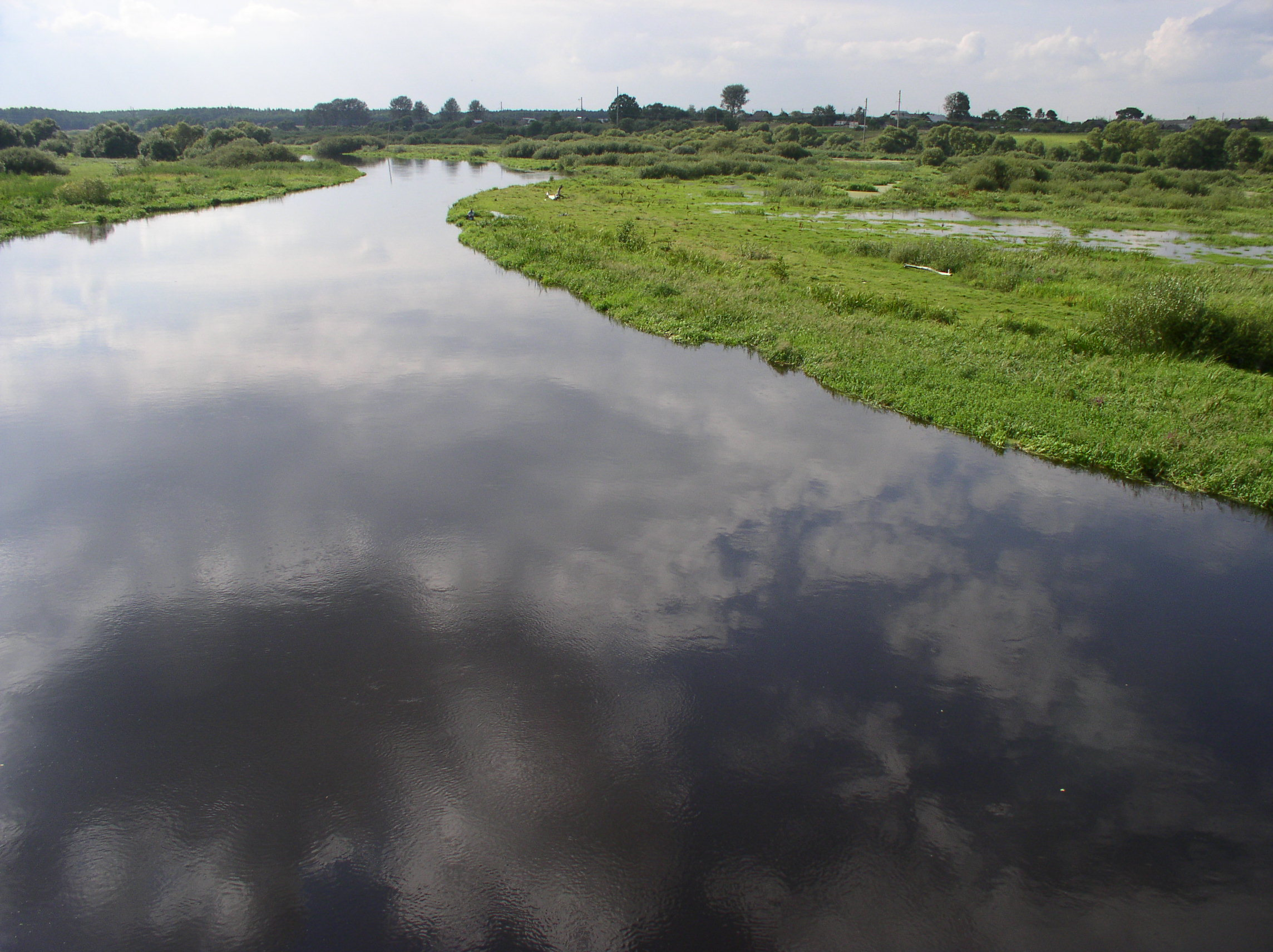 Svislach River, Belarus.